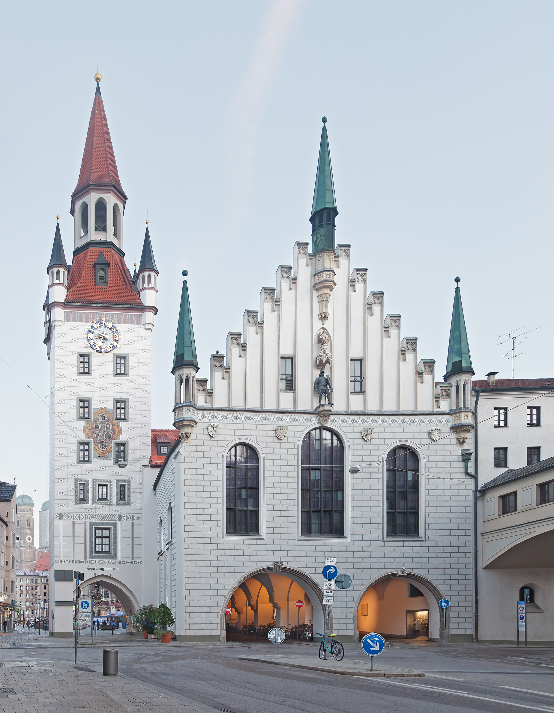 Old Town Hall of Munich, Germany